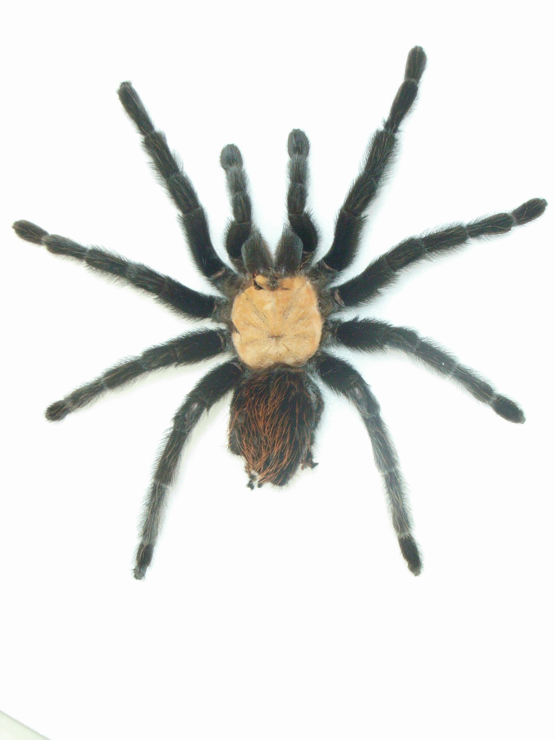 Hysterocrates maximus Strand, 1906 Ex coll. Felix Stumpe